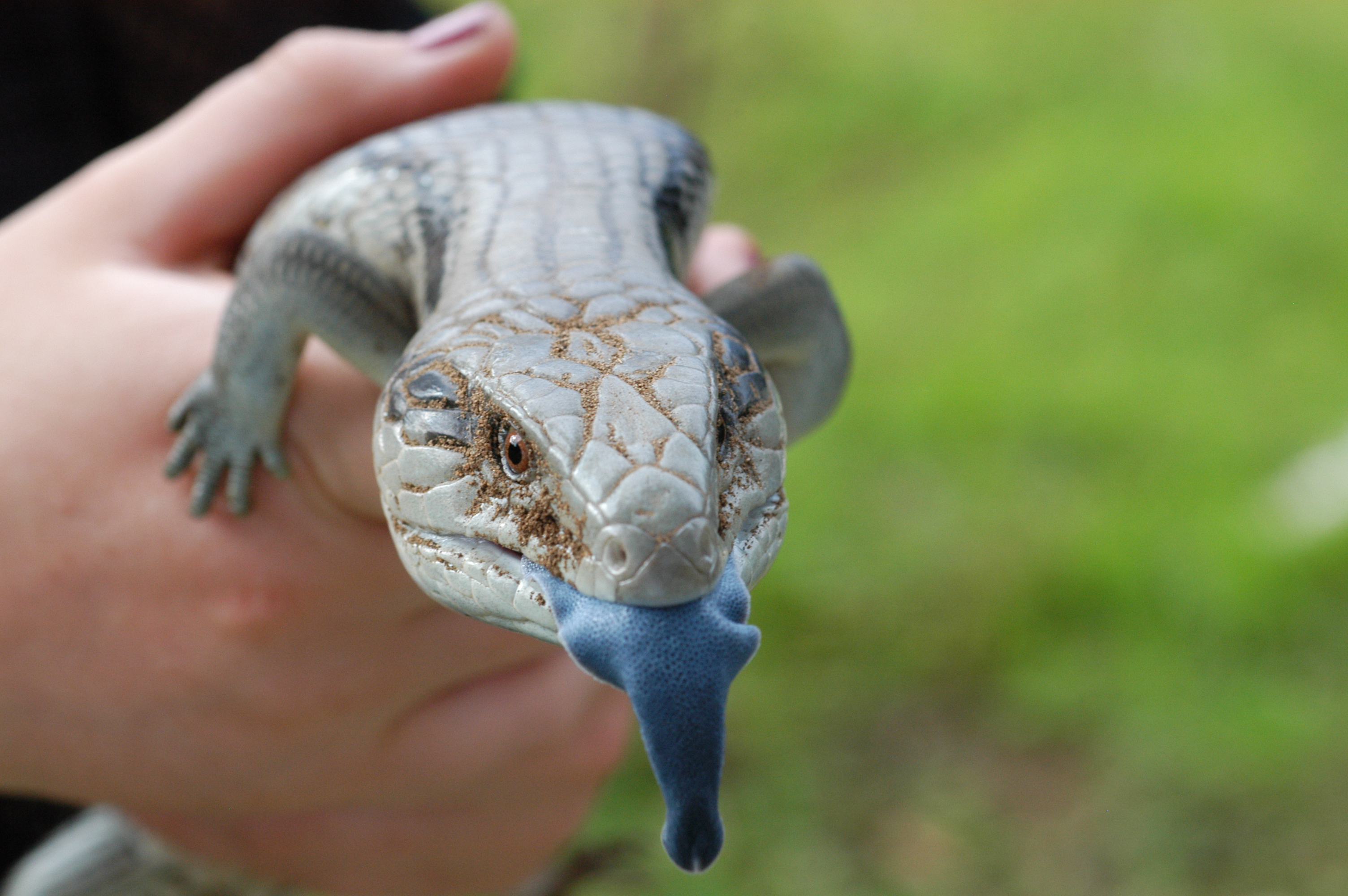 Tiliqua scincoides at Kilcare, NSW, Australia. "The blue tongue of the Blue-tongue lizard, which of course is a skink."